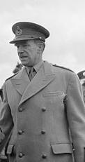 Portrait of Sir Brian Robertson. Full IWM caption : The Berlin Blockade, 1949. The British Prime Minister, Clement Attlee, visits Berlin to view the Airlift in operation. Mr Attlee with General Sir Brian Robertson, Commander-in-Chief of British Forces Germany and Military Governor of the British zone, at Tempelhof Airport.